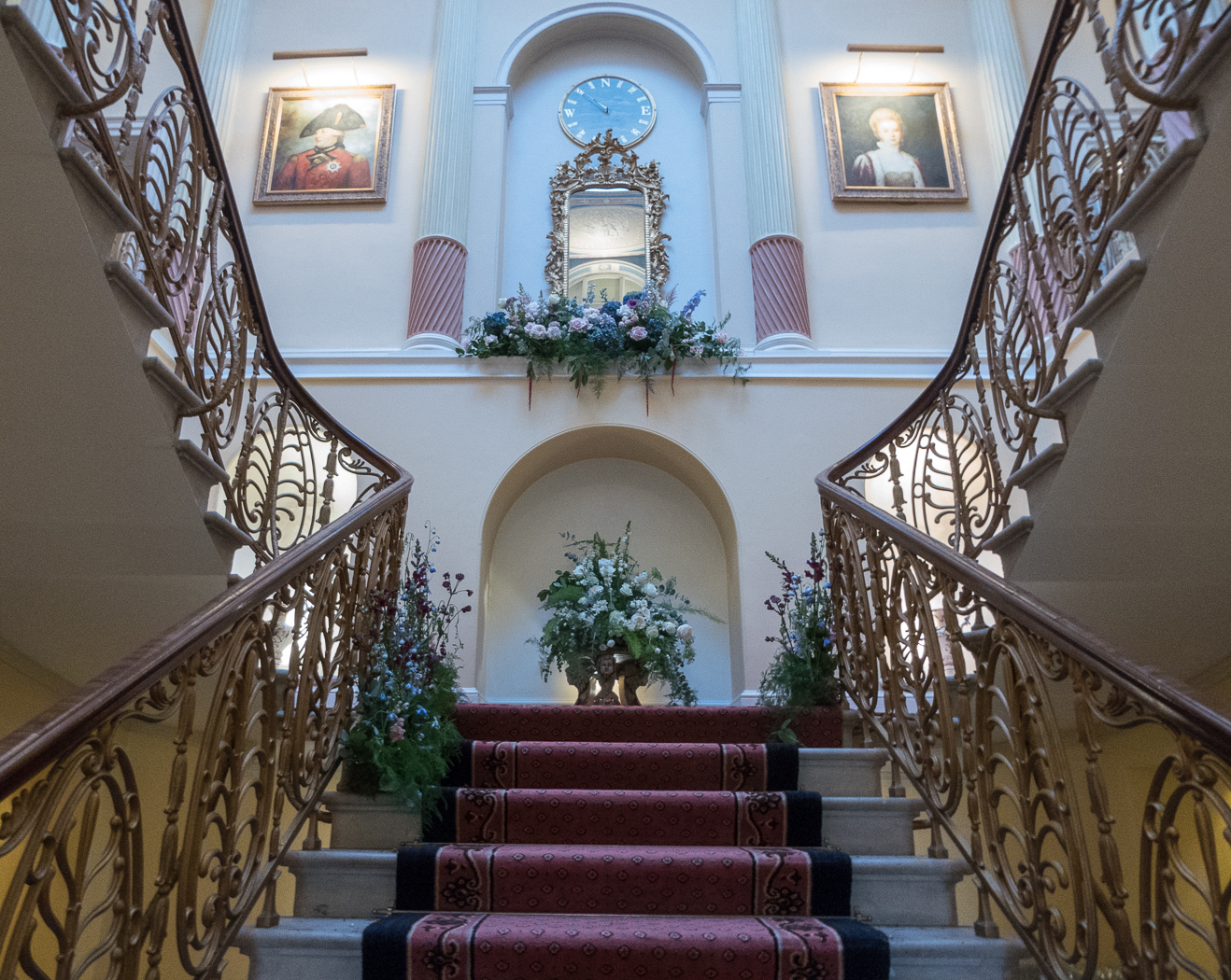 Interior of Brocket Hall, Hatfield, Hertfordshire. This stately home is used for functions.